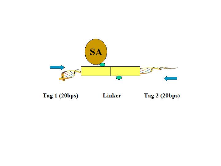 Science